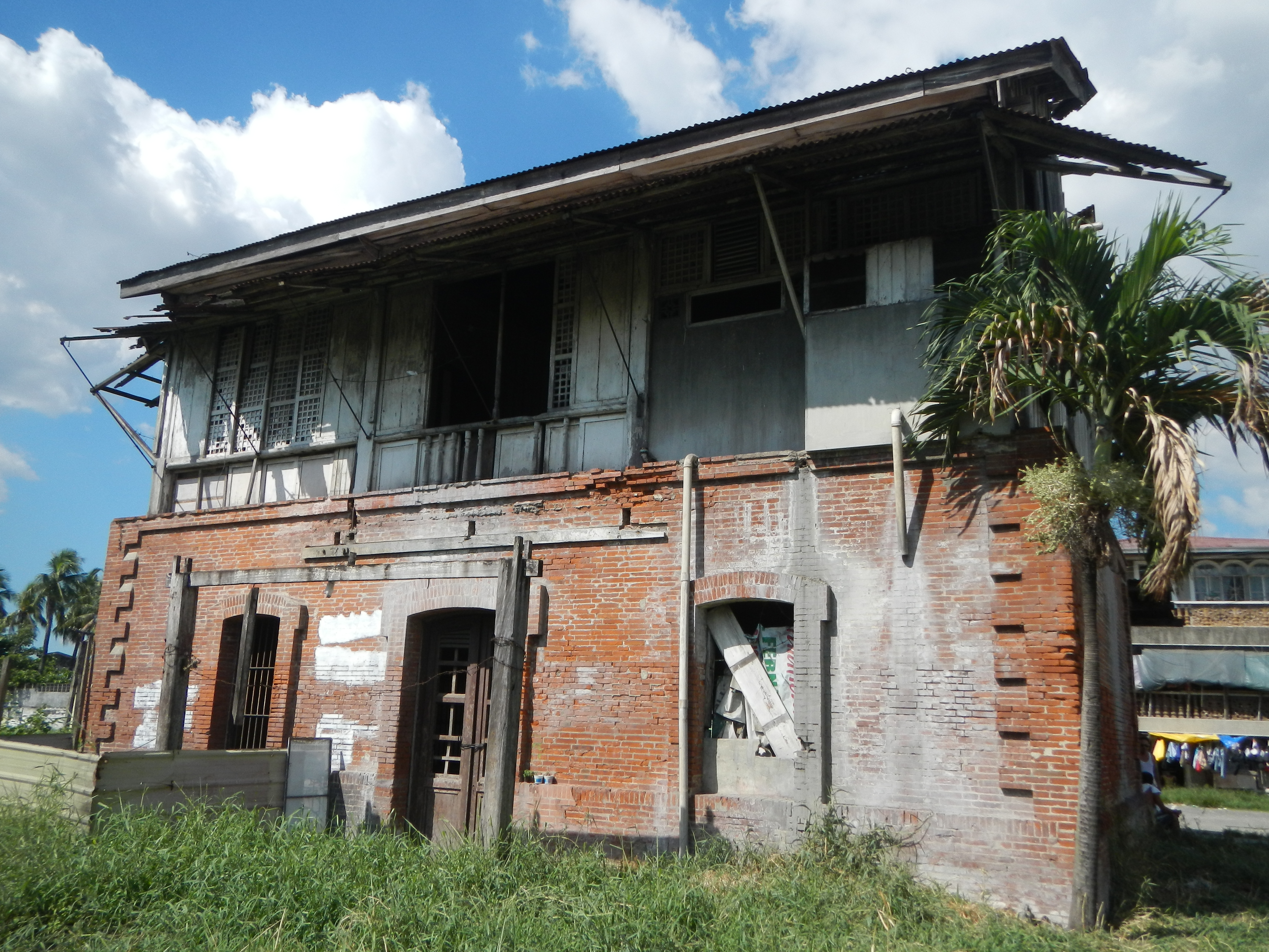 Old PNR - Meycauayan station Barangay Malhacan, Meycauayan City, Bulacan beside MacArthur Highway - List of Philippine National Railways stations Philippine National Railways Bulacan.